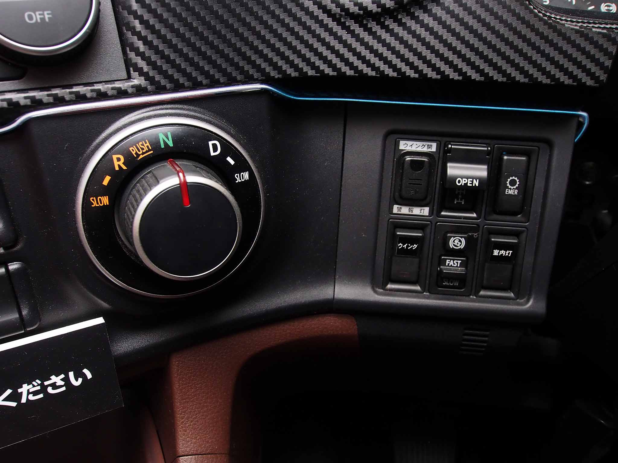 "Pro Shift" mechanical automatic transmission select dial for Hino Profia FW1E series.